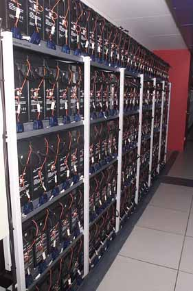 Backup batteries for UPS; Macquarie Telecom data center at Sydney